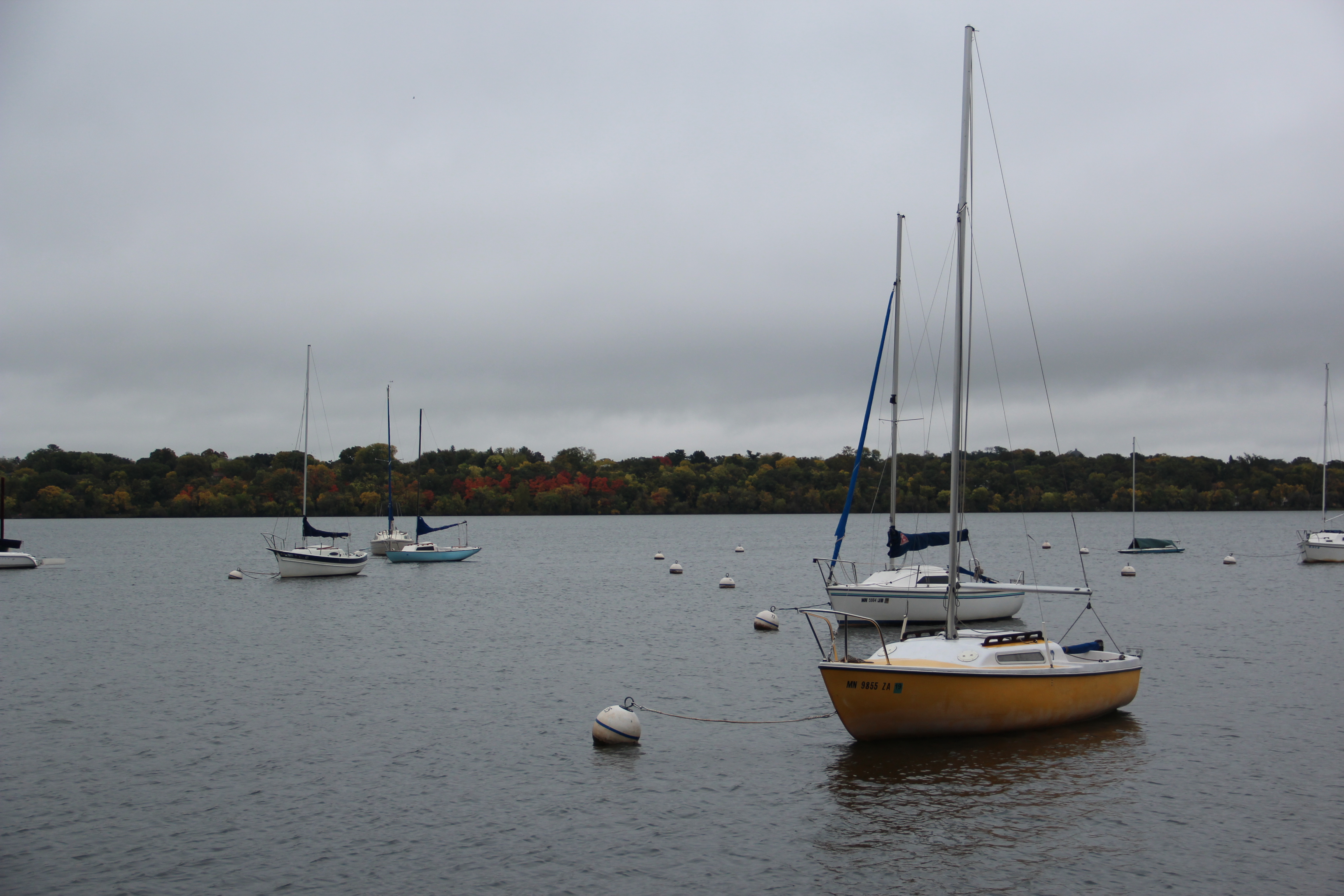 Boats on Lake Harriet, MN